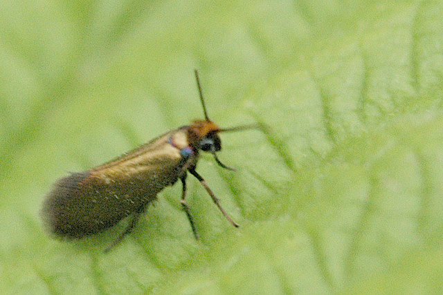 Picture taken in Commanster, Belgian High Ardennes . Species: Micropterix calthella